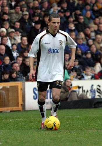 Port Vale vs Nottingham Forest 2008